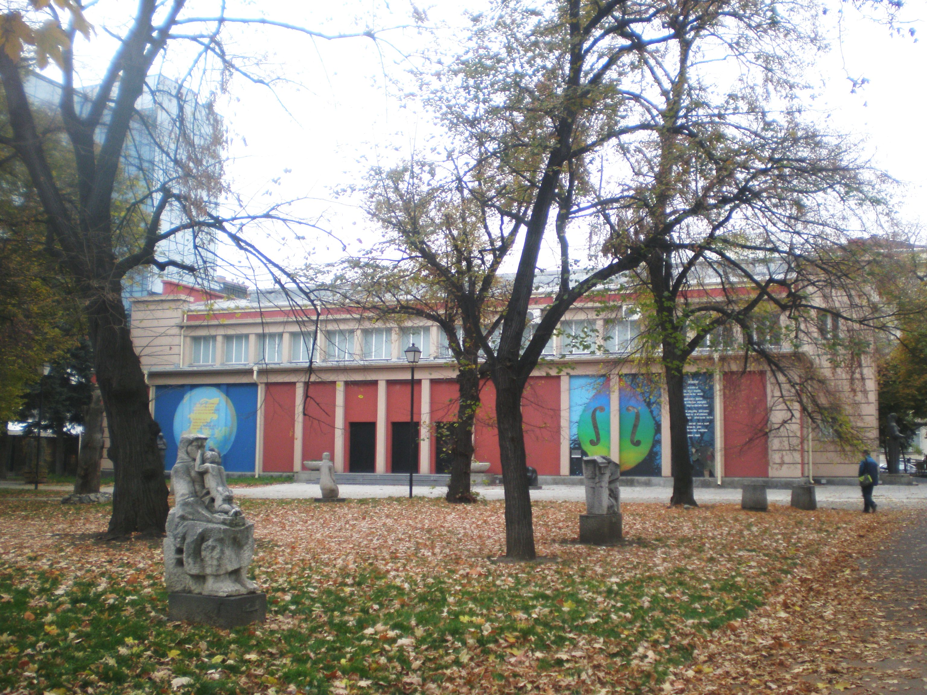 Sofia Art Gallery, Sofia, Bulgaria